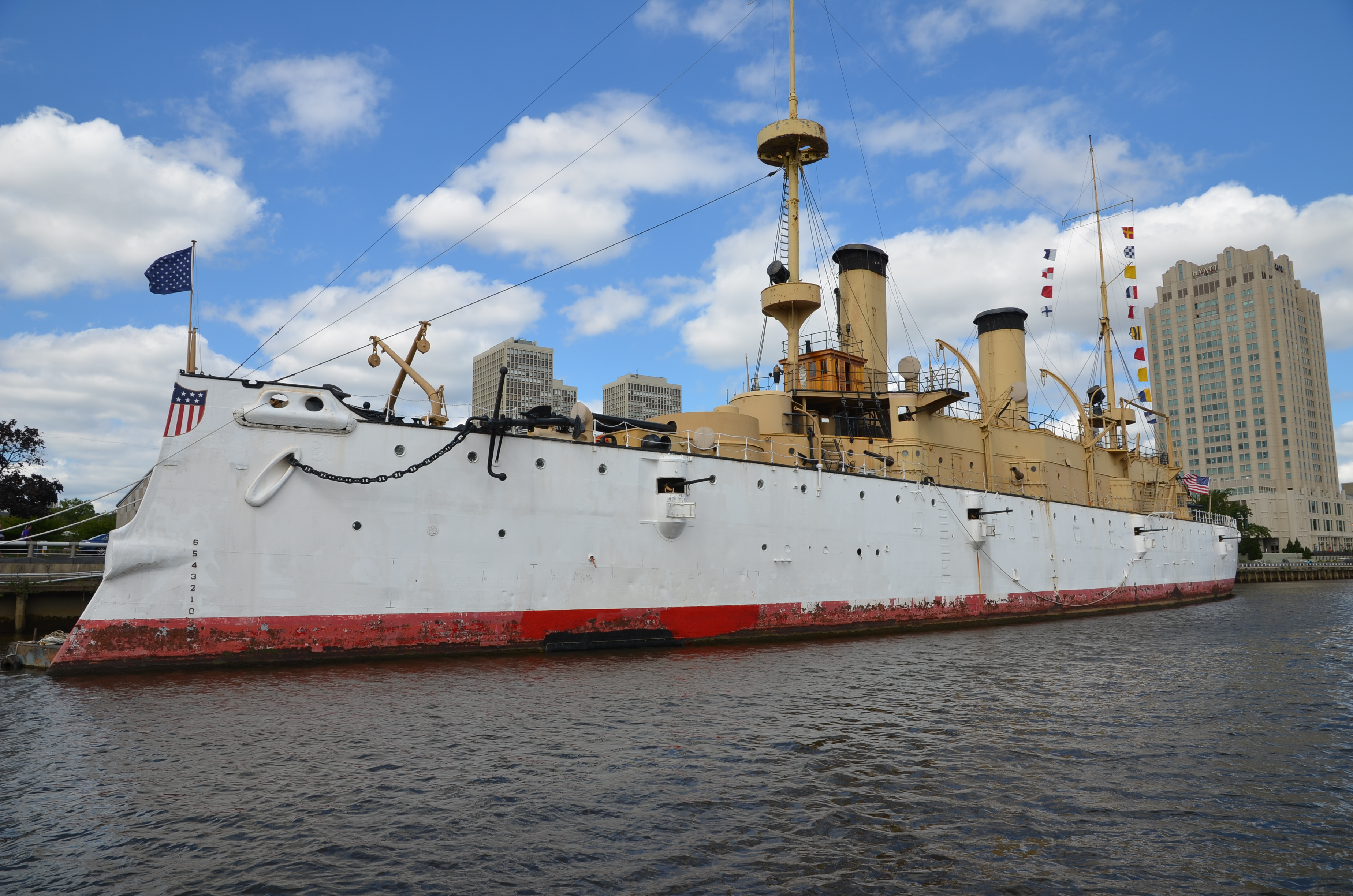 Kind of rare in the fact that the gun ports on the port side are open. They actually fired all the port guns during the battle.